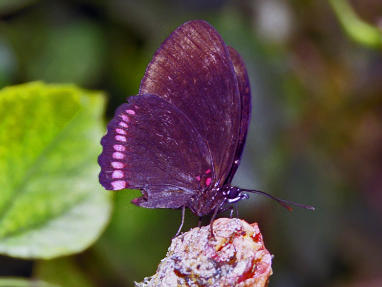 Biblis hyperia